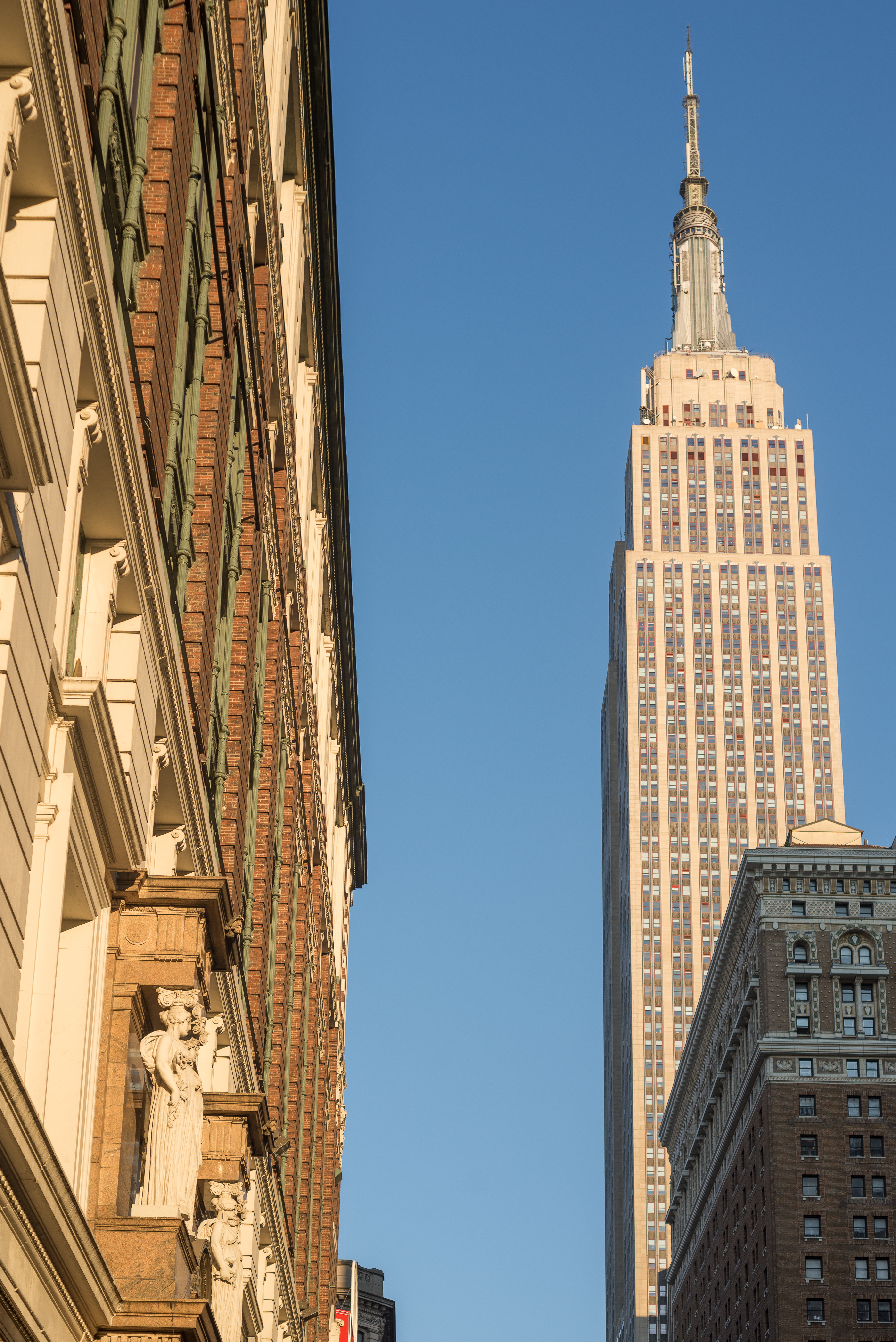 Macy's Herald Square, the flagship store of Macy's: 151 West 34th Street on Herald Square in Midtown Manhattan, New York City. Built in 1901 and also known as the R. H. Macy and Company Store. To the right, Empire State building.